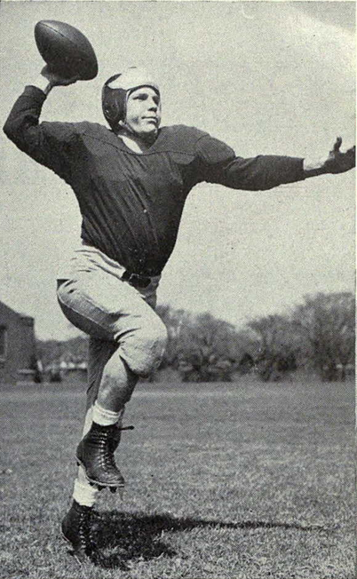 Photograph of Howard Yerges